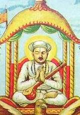 The Marathi poet-saint Tukaram (Ravi Varma Press, c.1910's)